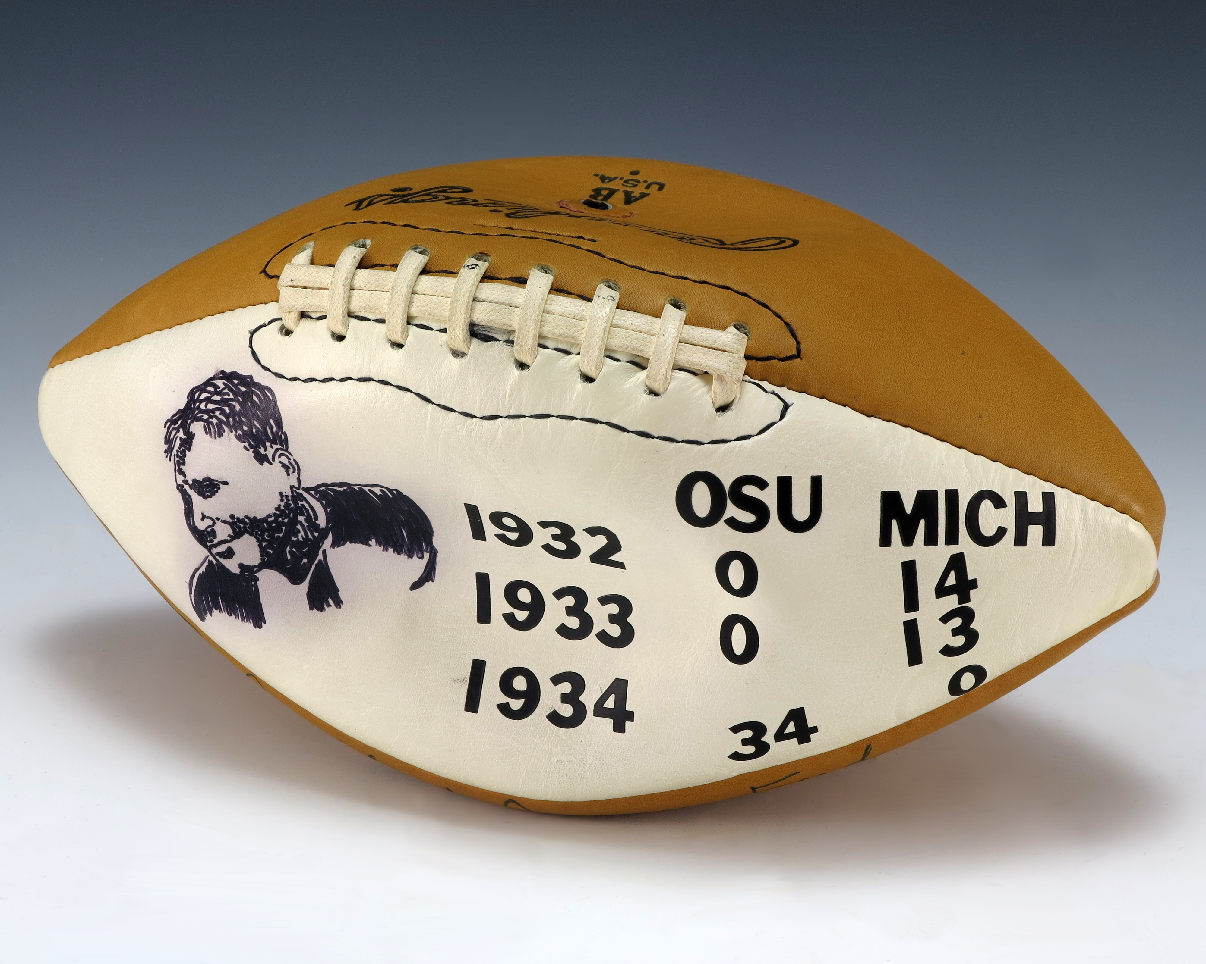 A football with an ink sketch of Gerald Ford and plastic stick-on letters state the scores of the Ohio State-Michigan rivalry from 1932-34 (Gerald R. Ford's three years on the Michigan varsity).